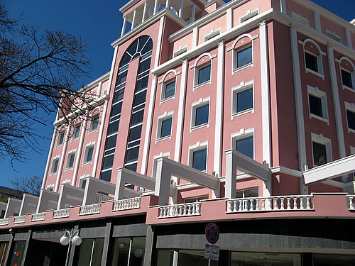 A business centre in Plovdiv